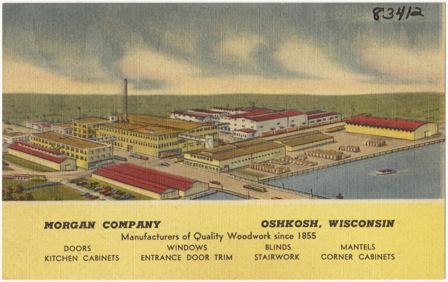 File name: 06_10_022796 Title: Morgan Company, Oshkosh, Wisconsin, manufacturers of quality woodwork since 1855 Created/Published: J. A. Fagan Publishing Co., Madison, Wis. Date issued: 1930 - 1945 (approximate) Physical description: 1 print (postcard) : linen texture, color ; 3 1/2 x 5 1/2 in. Genre: Postcards Subject: Industrial facilities Notes: Title from item. Collection: The Tichnor Brothers Collection Location: Boston Public Library, Print Department Rights: No known restrictions